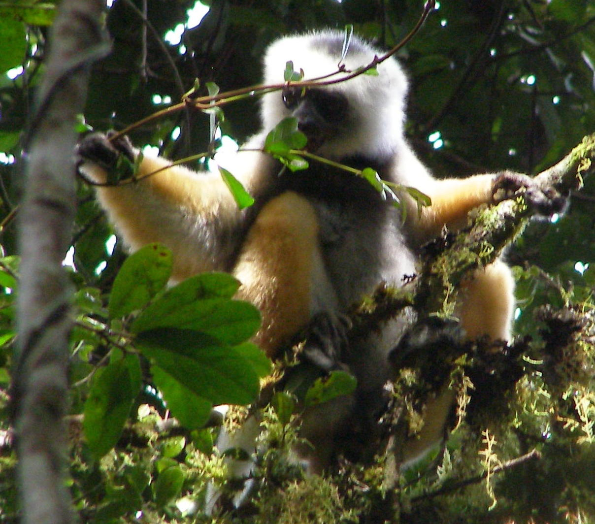 Photo taken in Mantadia National Park, Madagascar.